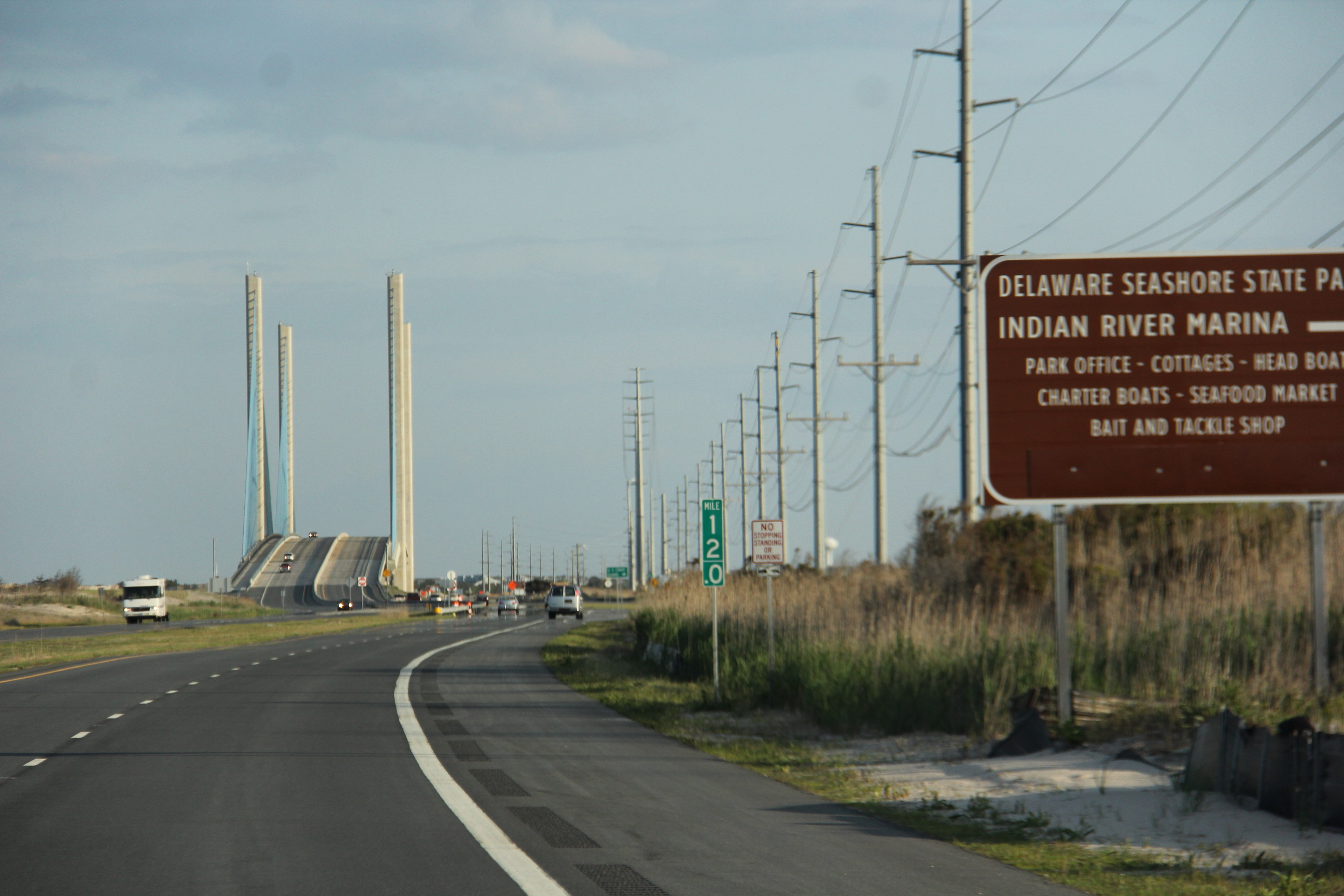 Coastal Highway, Bethany Beach, DE 19930, USA